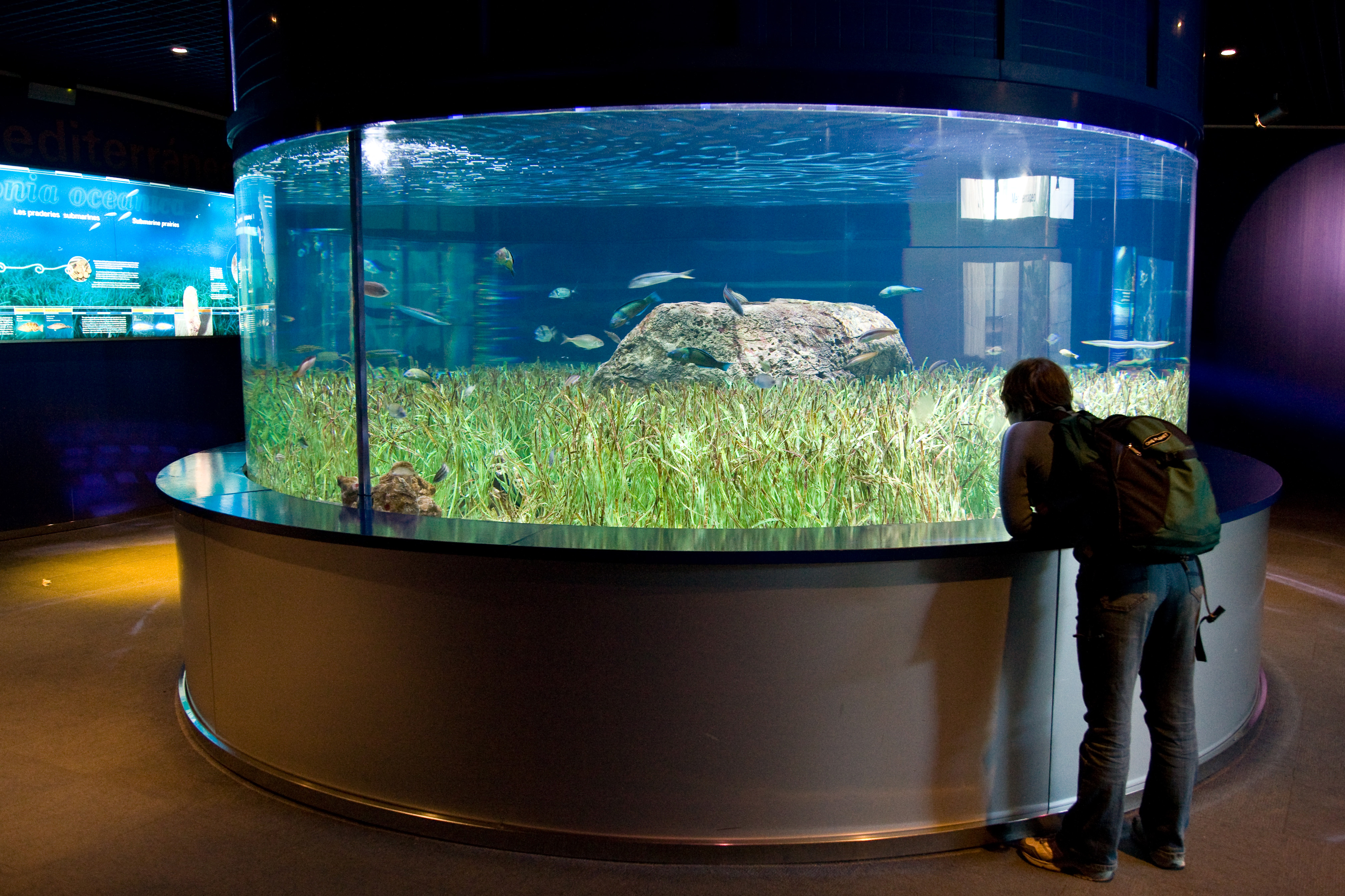 An aquarium display in L'Oceanografic, Valencia, Spain.